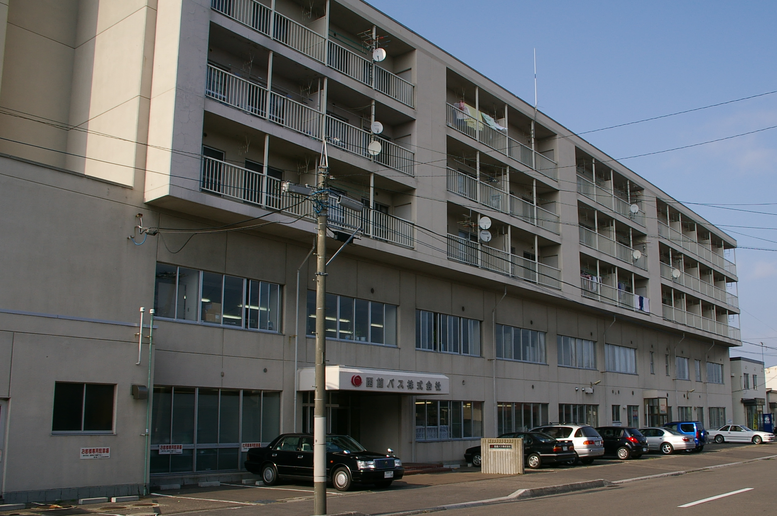 Hakodate Bus Headquarters and Hakodate Depot in Hakodate City, Hokkaido, Japan